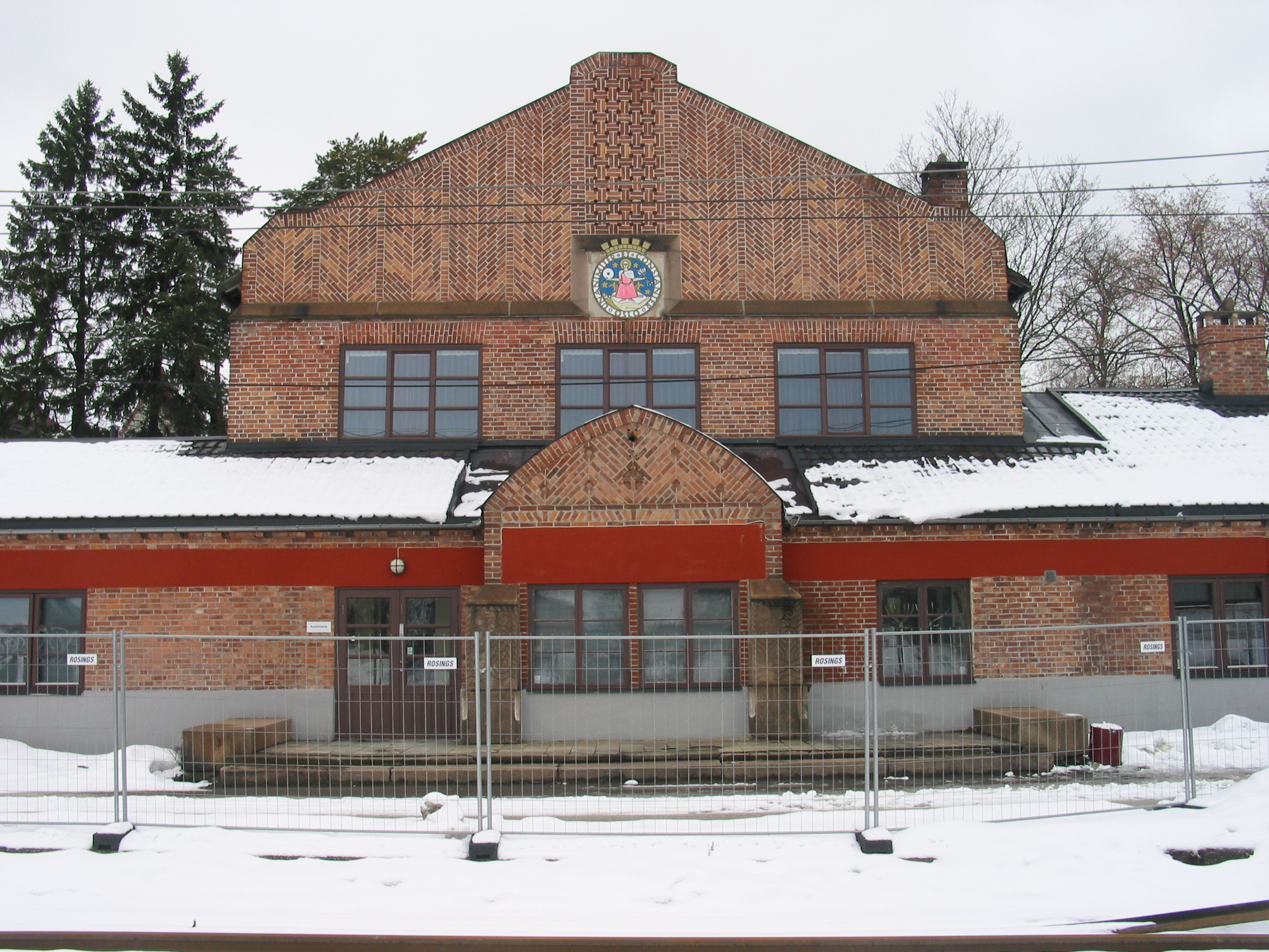 The station building at Lilleaker tramway station, March 2009. It is decorated with the coat of arms of Oslo city.